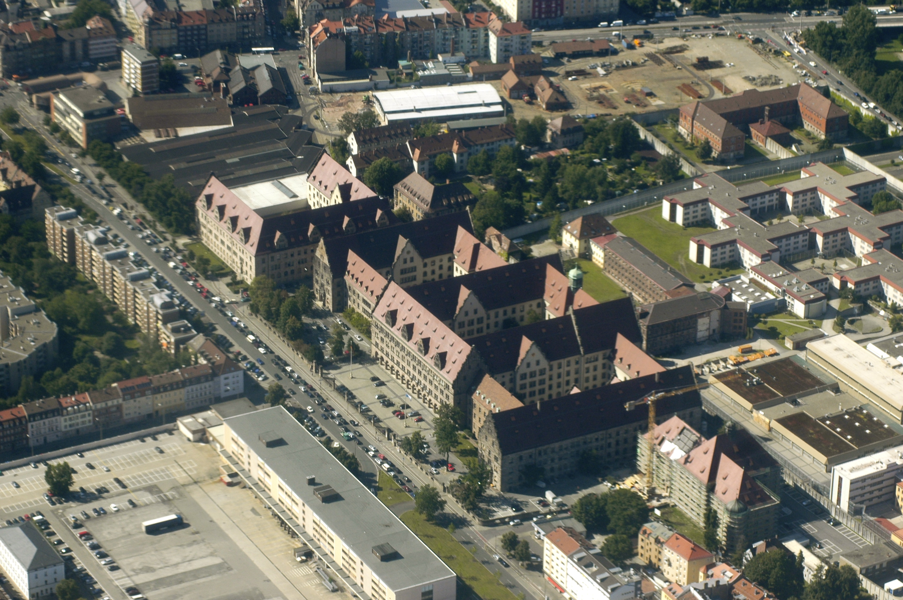 Aerial photography of the Justizpalast of Nuremberg